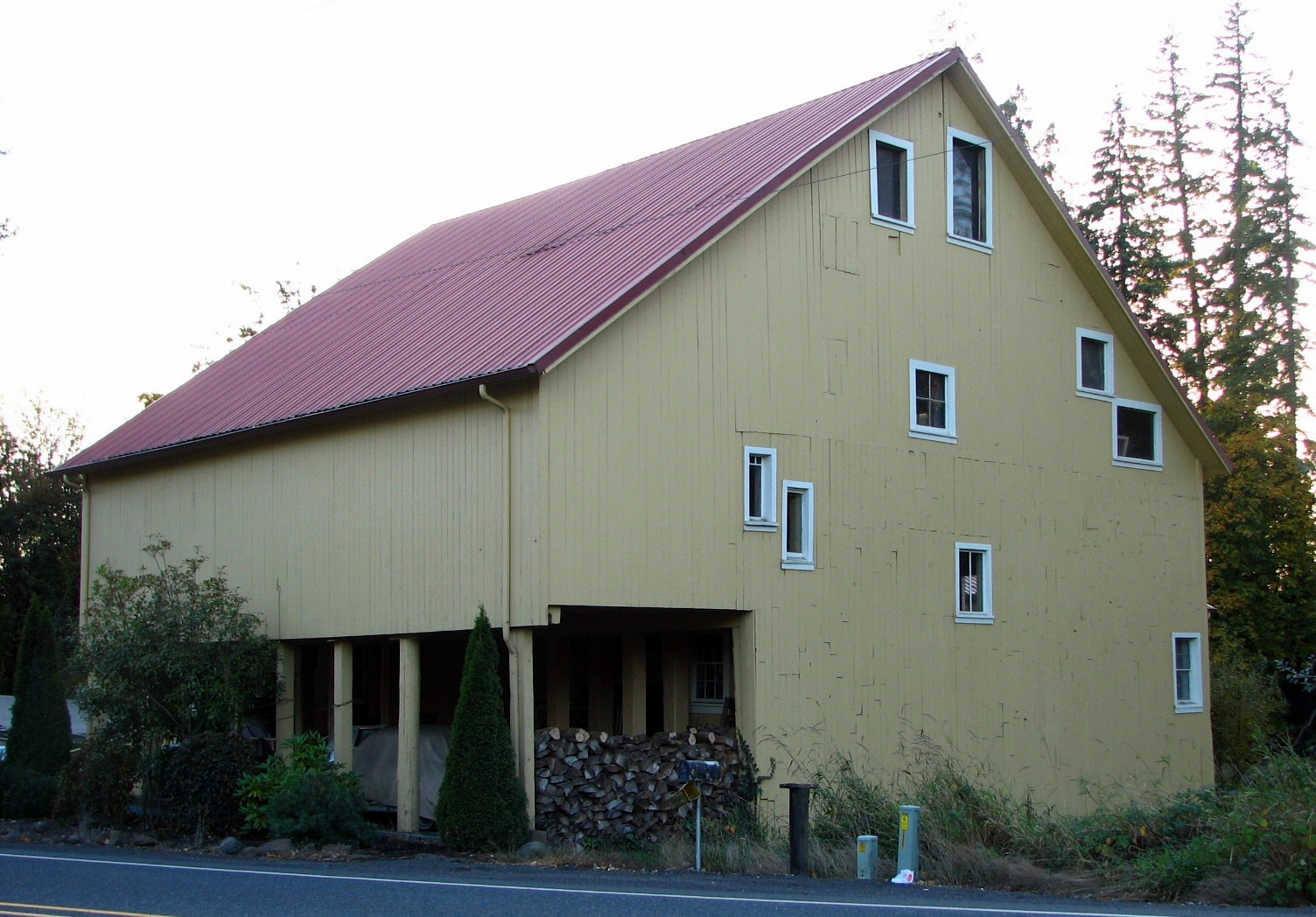 Historic Howard's Gristmill (built 1851), located at 26401 South Highway 213 in Mulino, Oregon, United States, is listed on the US National Register of Historic Places (NRHP).